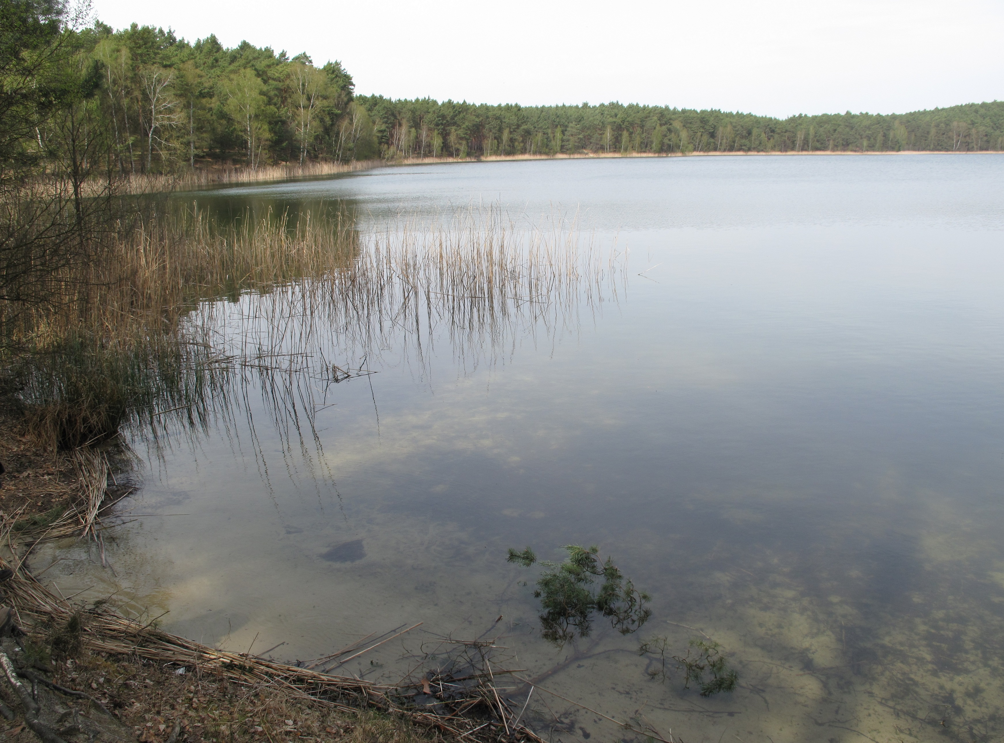 View from the southern bank of the Godnasee to north. The Godnasee is a lake in the village Kehrigk, ap part (german: Ortsteil) of the town Storkow, District Oder-Spree, Brandenburg, Germany. The lake covers 18 hectare and has a depth of max. 6,5 meters. It is situated in the Dahme-Heideseen Nature Park at he border to the Spreewald Biosphere Reserve. It is declared as bathing lake for nudists.